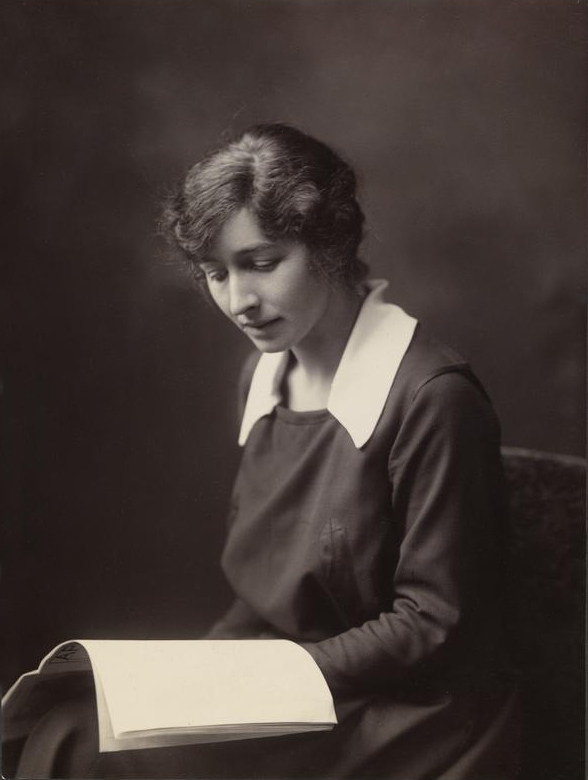 A white woman, seated, wearing a loose-fitting dark dress with a large white collar. She has an open soft-covered book or magazine in her lap, and is looking down at it.